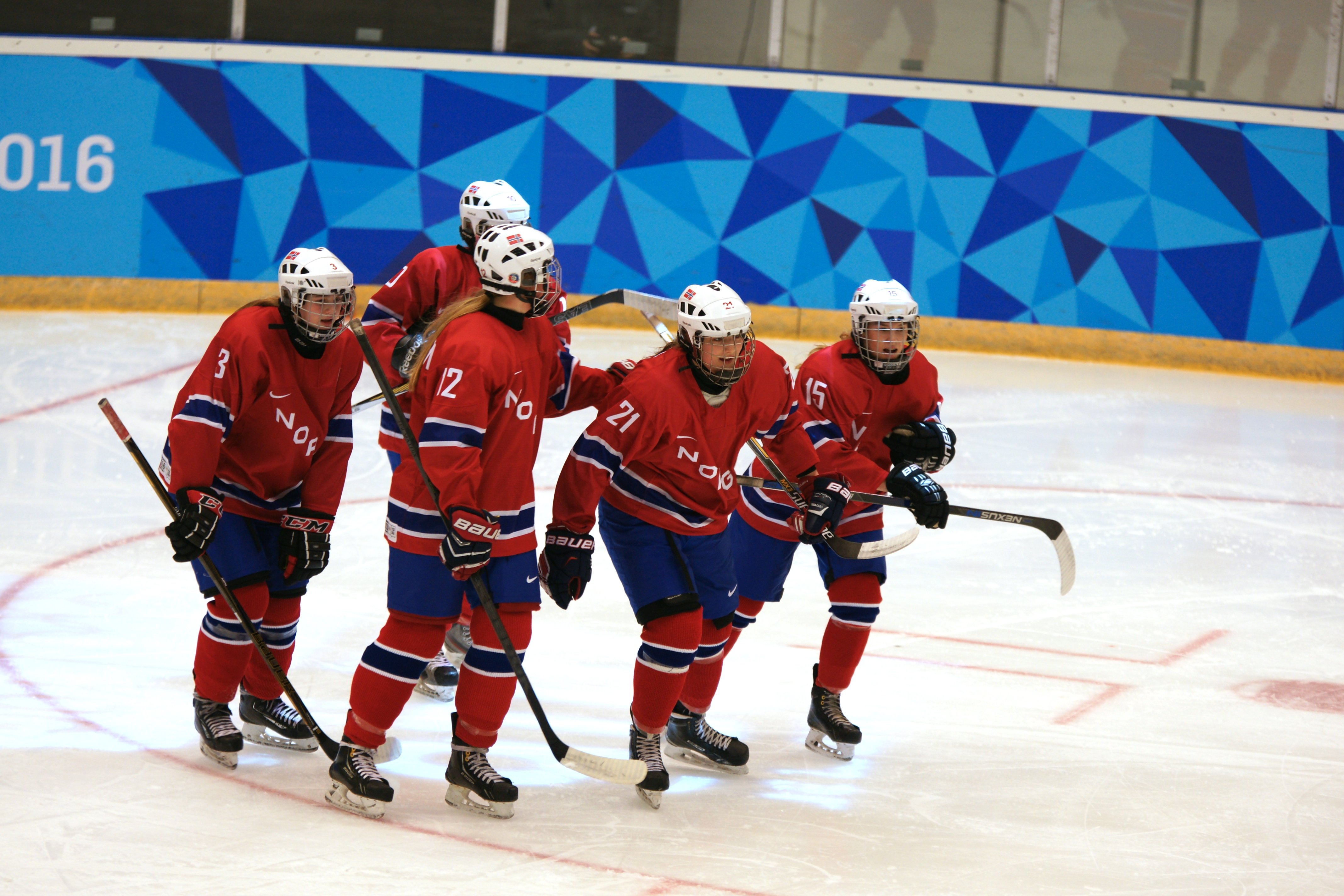 Norwegian team at Lillehammer 2016 YOG (12/02/2016 SVK-NOR)